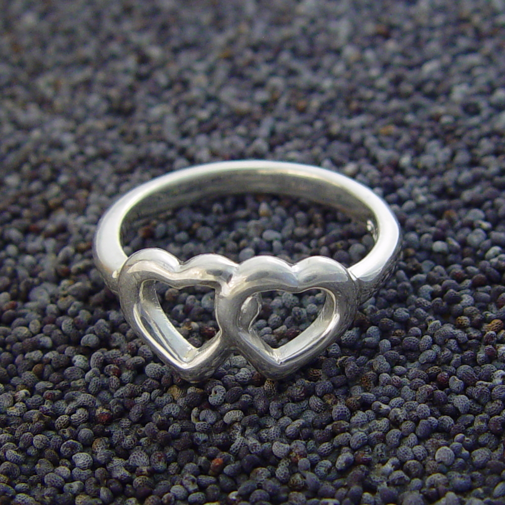 Photography taken by a Canadian jeweller